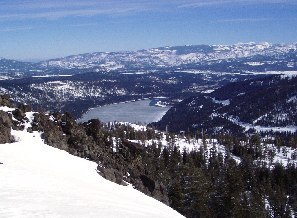 A view of the Donner Memorial State Park